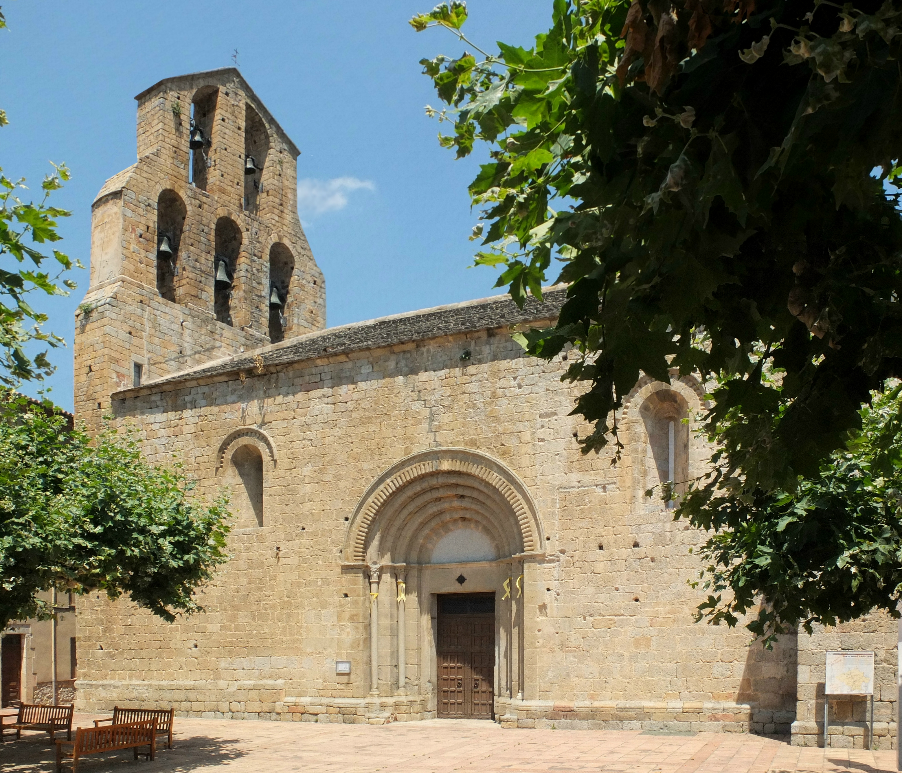 Iglesia "Santa Maria, Agullana", Cataluña, Spain (view South).